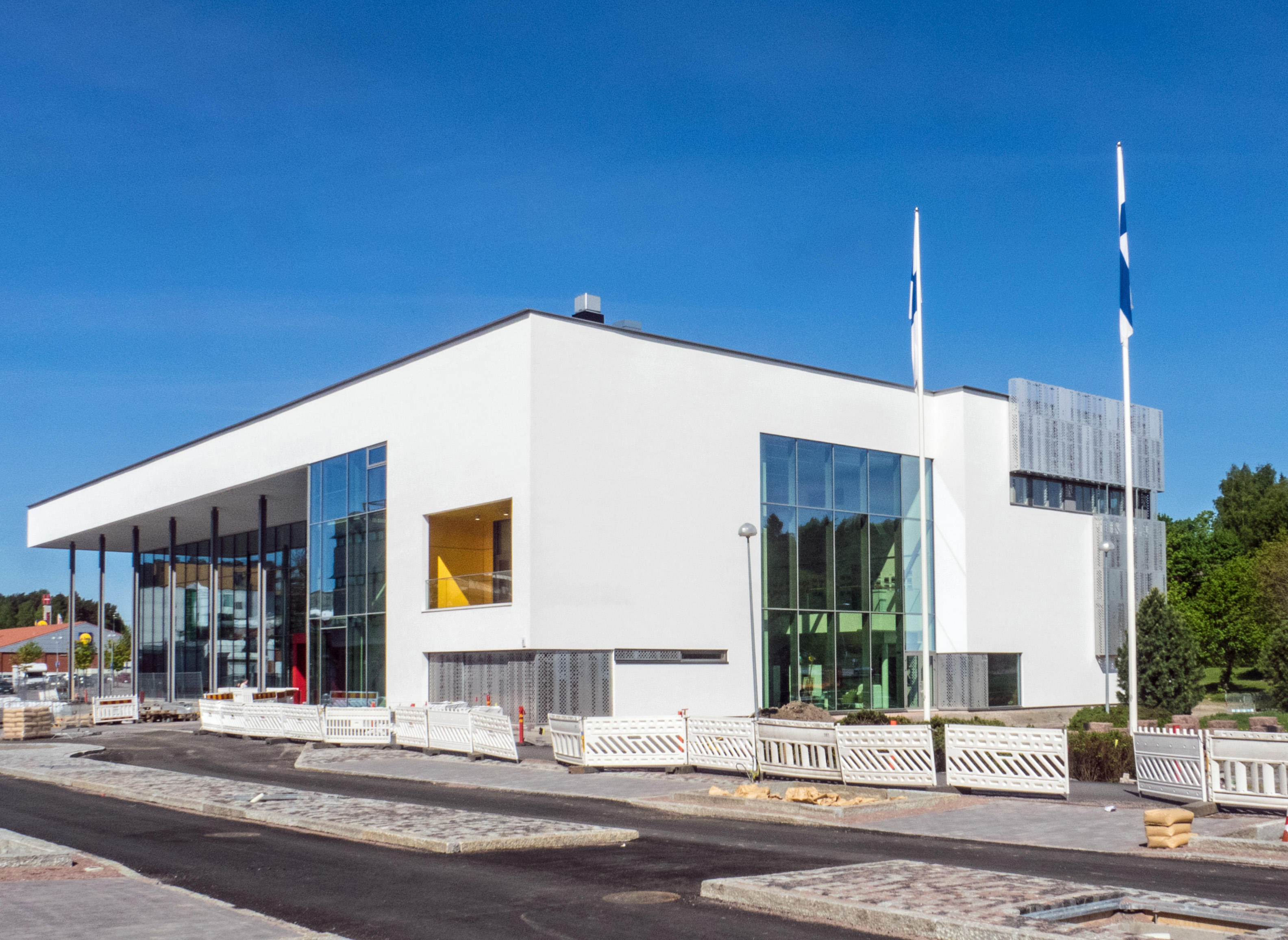 Kaarina-talo, building housing the library and city administration in Kaarina, Finland. Architect Pia Helin, completed 2018.